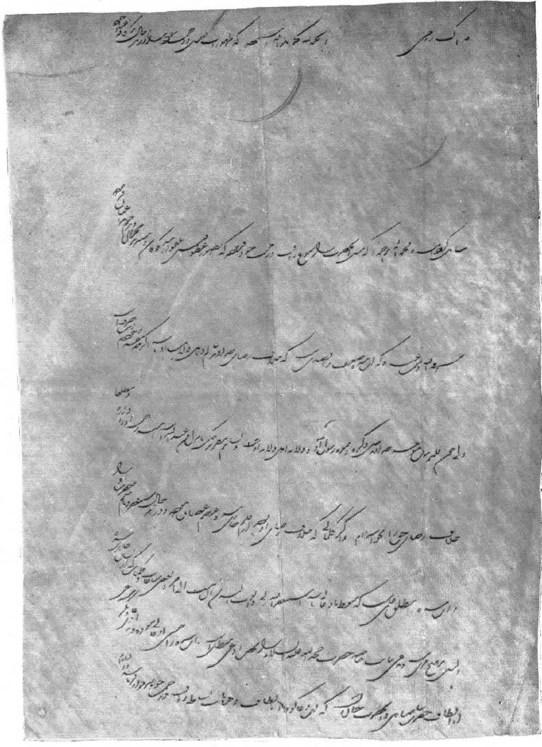 Báb's handwriting and consists of a complete recantation and renunciation of any superhuman claim which he may have advanced or have appeared to advance. "The text of the recantation published by Browne also merits the utmost reservation. Undated and unsigned, the document hardly qualifies as the "sealed undertaking" in the official report. Moreover, its plain language and wording are highly distinct from the Bab's peculiar style. We can assume that if at all authentic, the recantation was prepared by the authorities but for reasons unknown - perhaps due to the Bab's refusal - remained unsigned."[1] "This document, which was sent to Browne by French Baha'i Hippolyte Drefus, was apparently later traced in the Majlis Library in Tehran. Since its publication in 1918, it became part and parcen of all anti-Babi-Baha'i polemics and an effective weapon in the growing arsenal of fictitious documentation."[1]